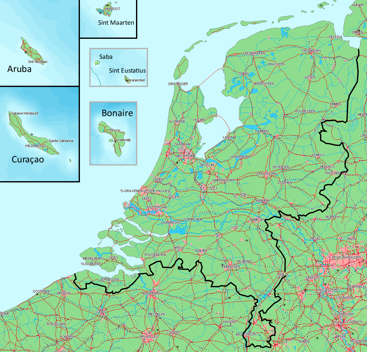 Map of the Kingdom of the Netherlands. The mainland and all the islands are on the same scale.